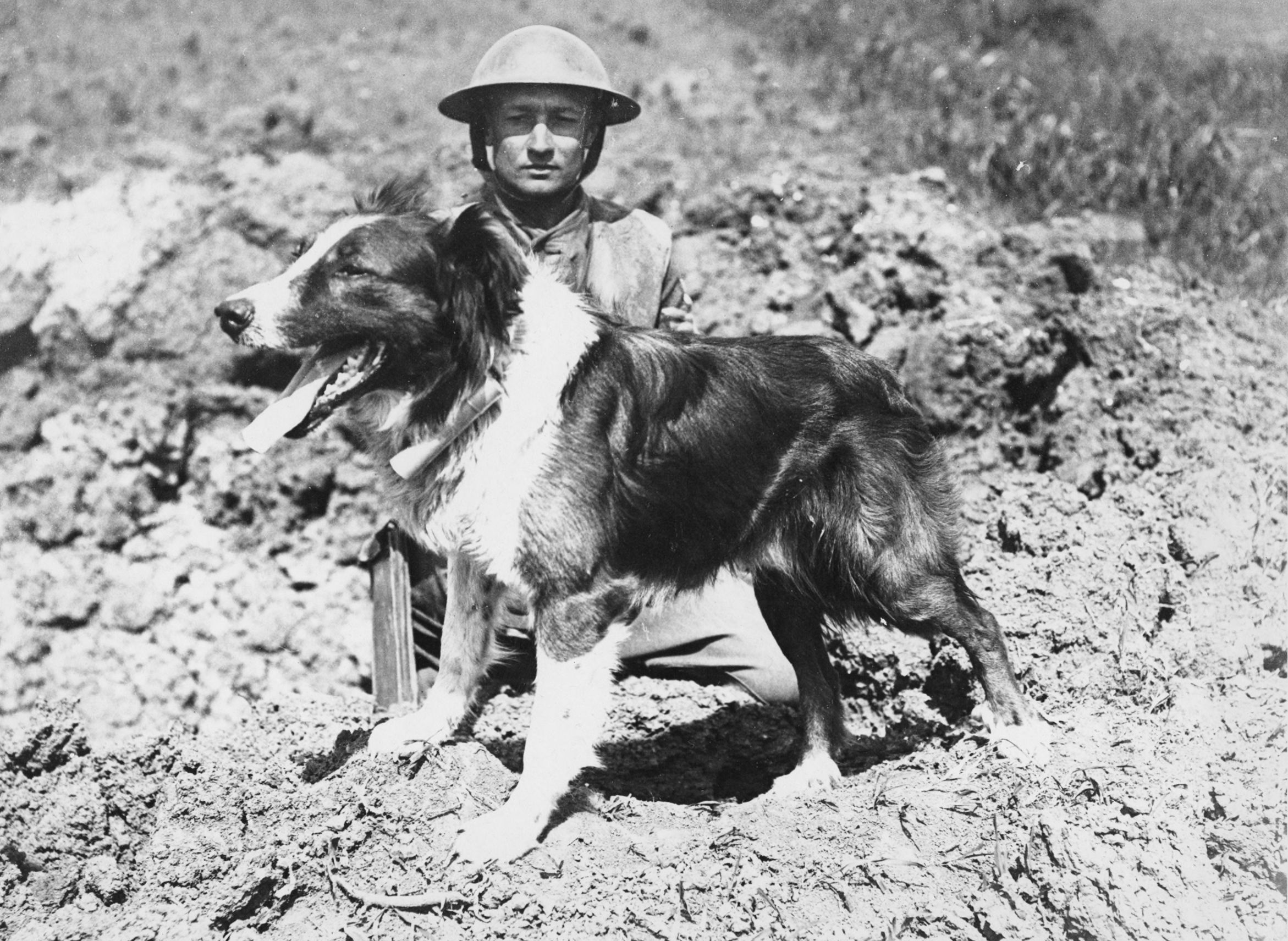 Messenger dog with its handler, in France, during World War I